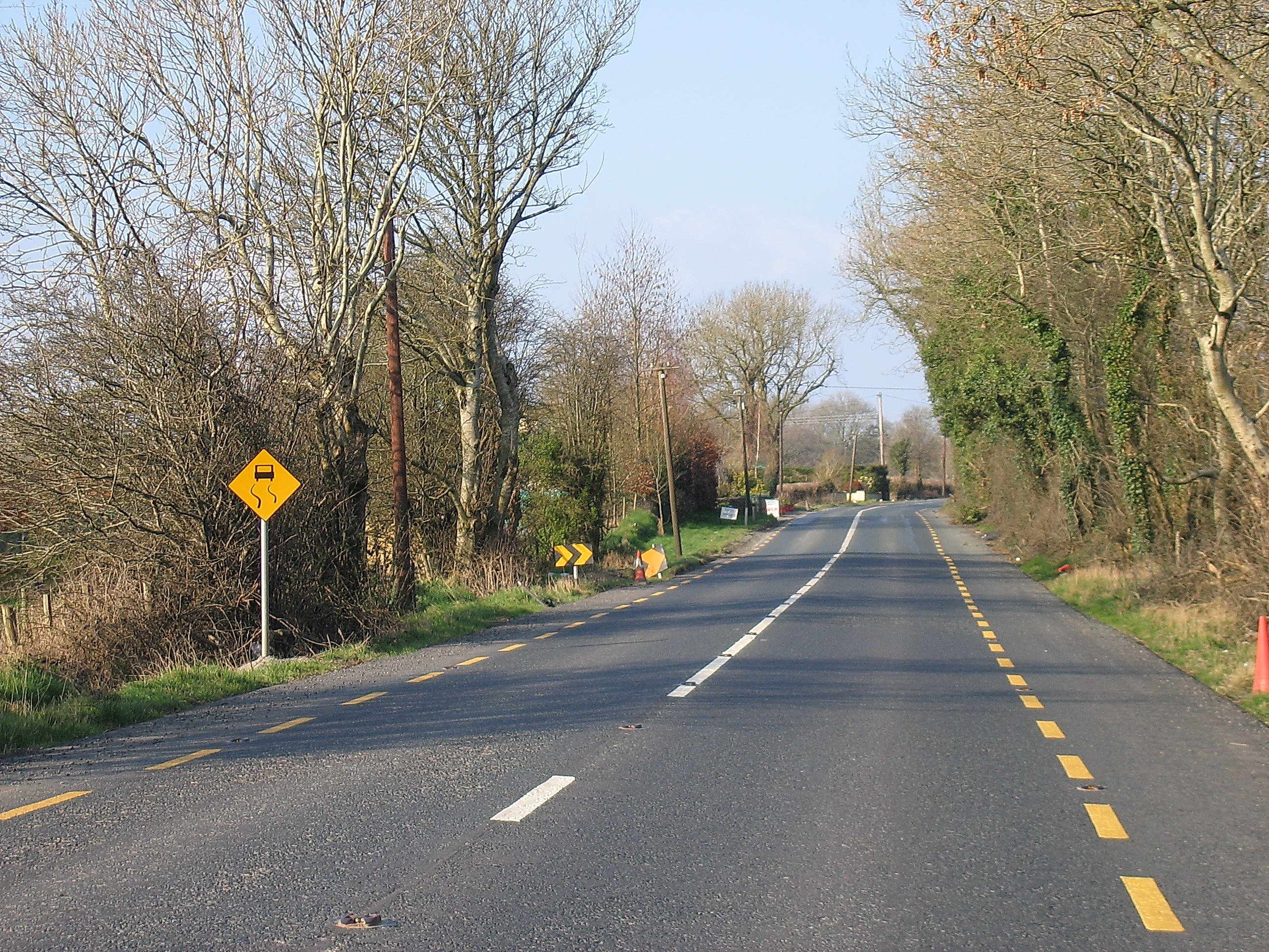 N81 in West Wicklow - a fairly typical stretch.